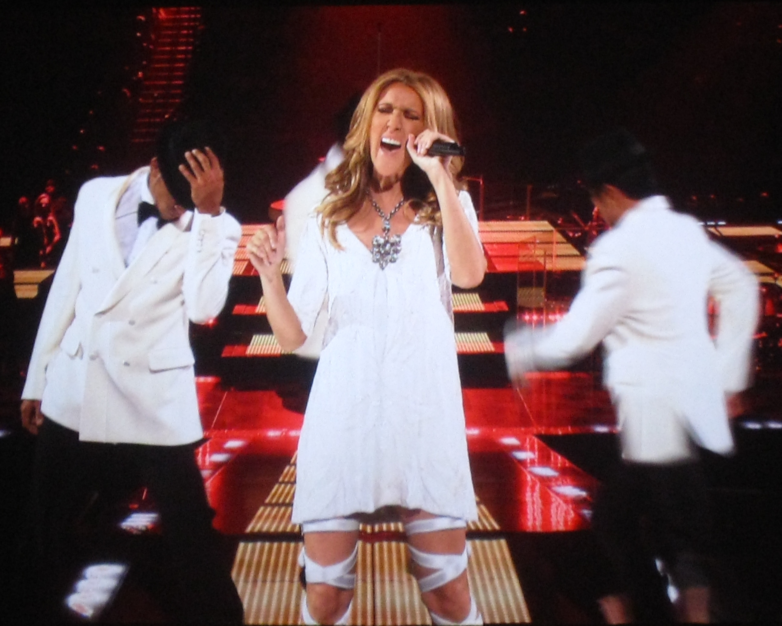 Taken at the Celine Dion 'Taking Chances Tour' Concert @ Bell Centre, Montreal, Canada in August, 2008.